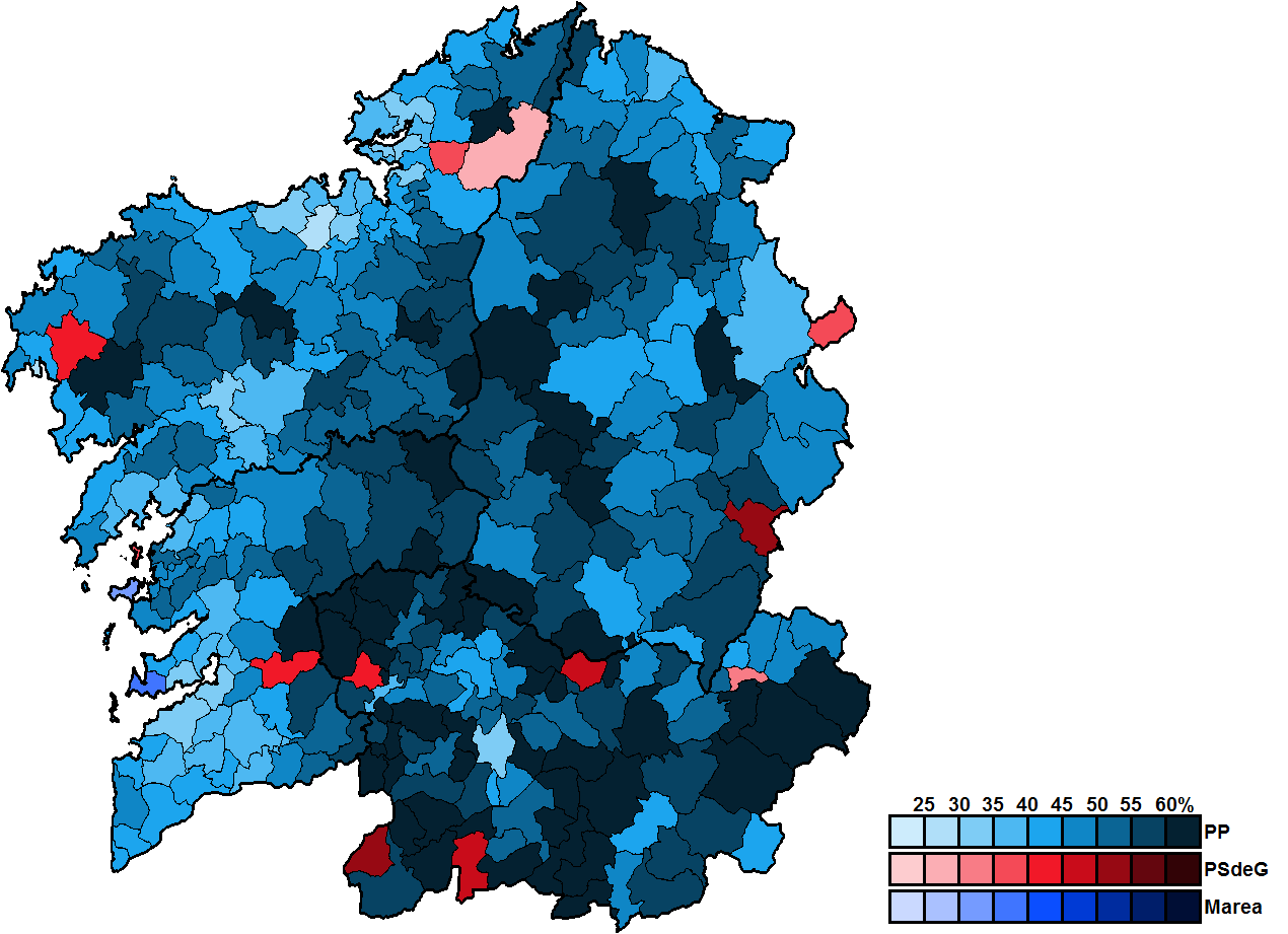 Most-voted party in Galicia municipalities, showing vote share obtained, in the Spanish general election, 2016.